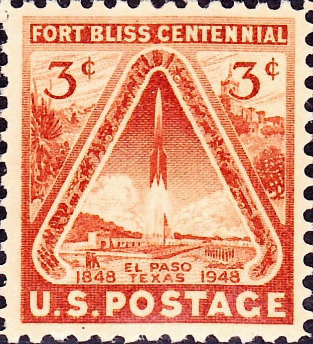 US Postage stamp, 1949 issue